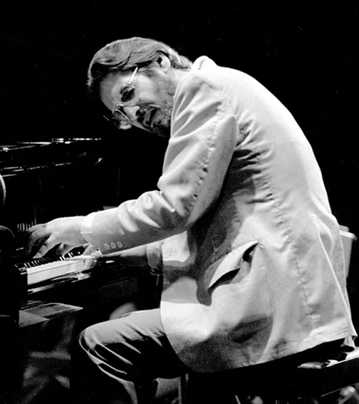 Bill Evans performing at the Montreux Jazz Festival (Switzerland) with his trio consisting of Marc Johnson, bass & Philly Joe Jones, drums, July 13, 1978. Photo: Brian McMillen /